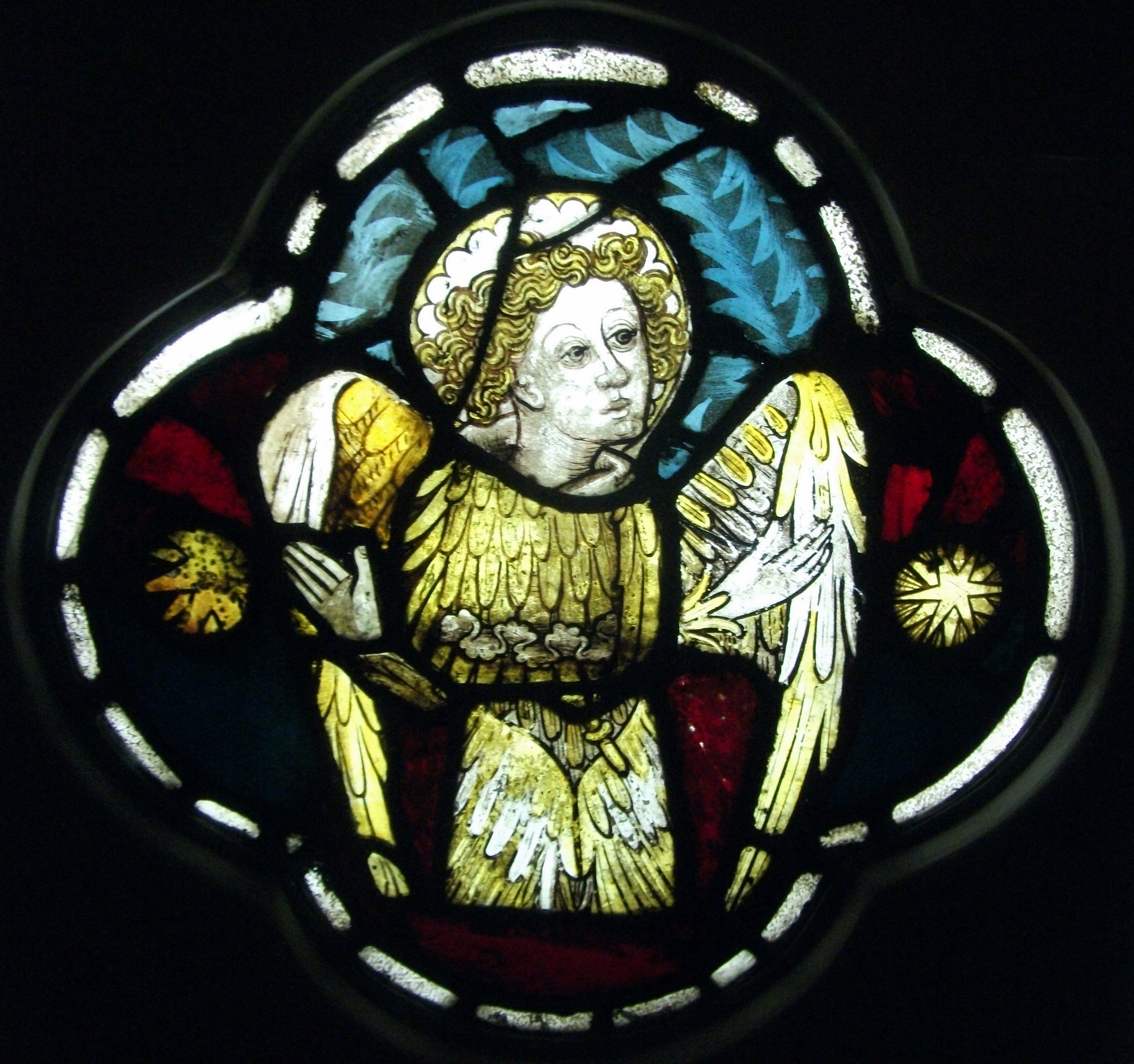 Stained glass in the Burrell Collection